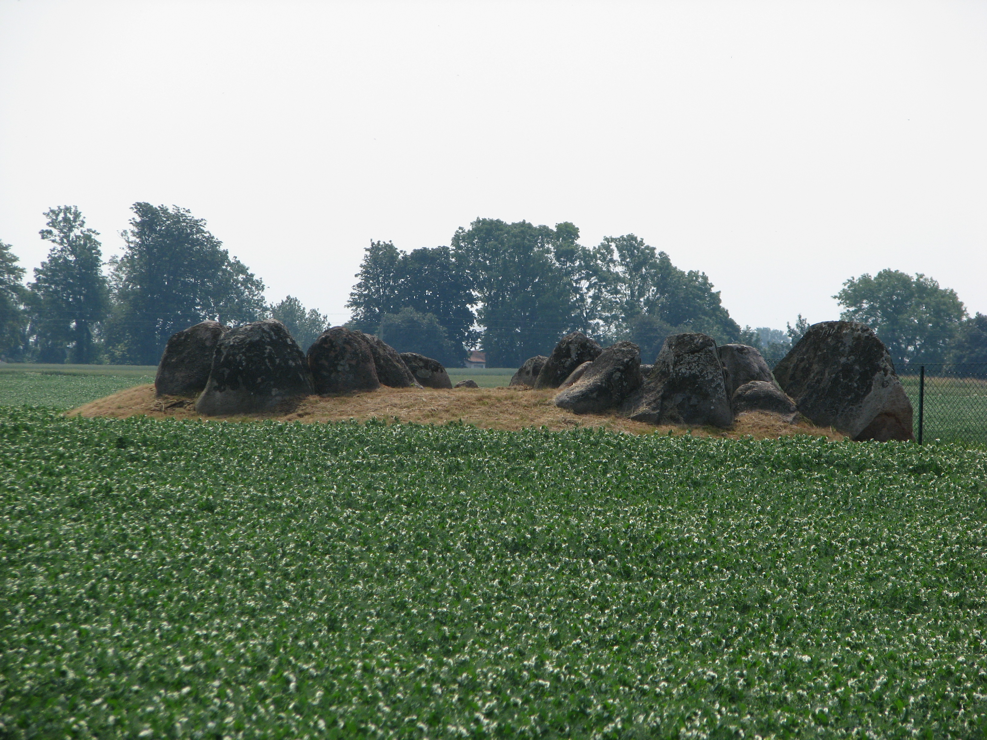 Around 4 500 years old double passage grave. Located two kilometers west of the village Smygehamn in the parish of Östra Torp, Sweden. (Link goes to Östra Torp 22:1, might be Östra Torp 22:2 though)